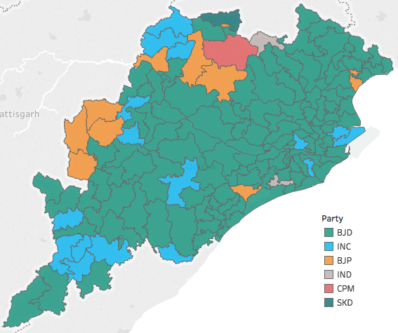 map view of assembly constituency by winning party